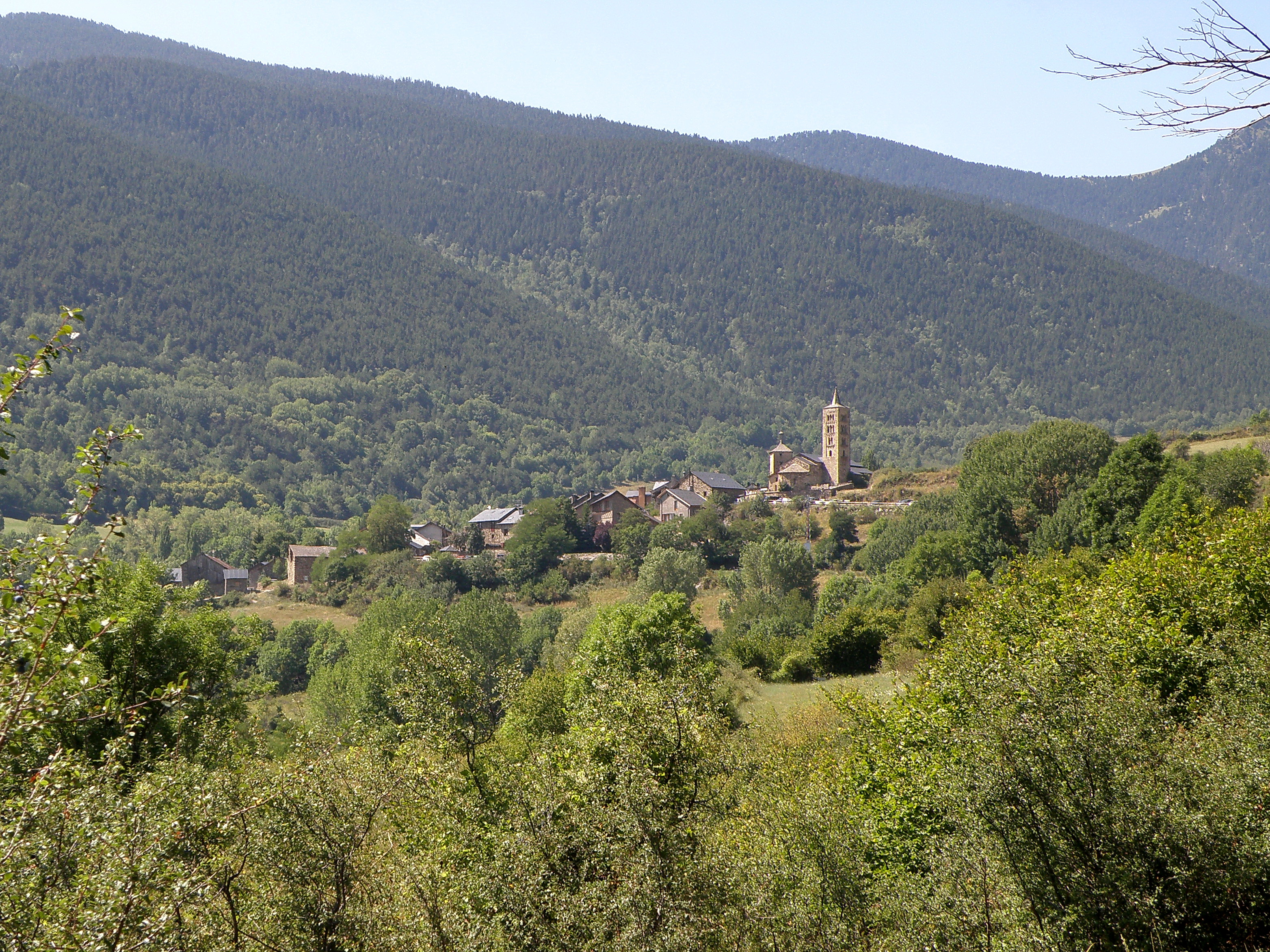 Village of Son seen from the northern end